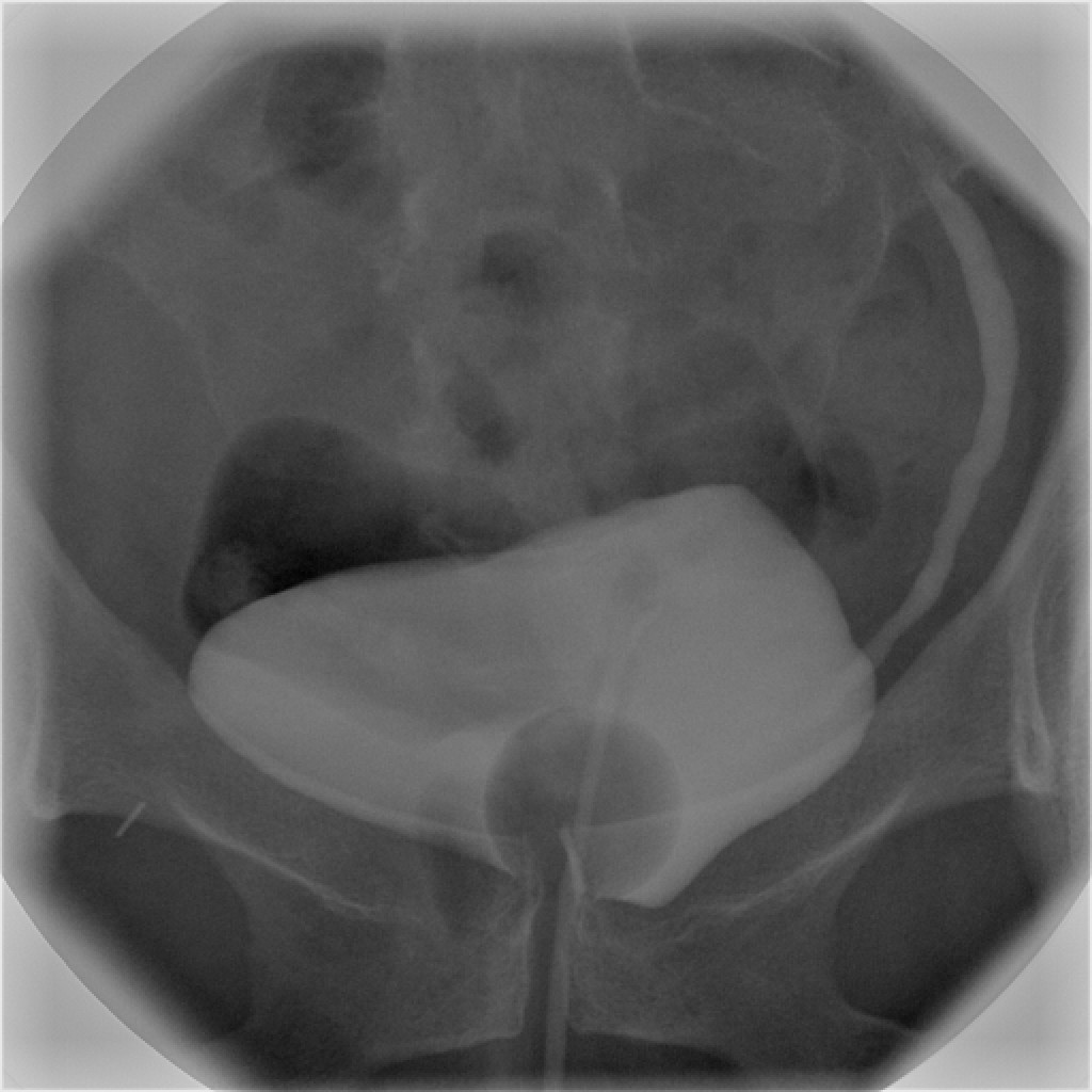 X-ray of urinarybladder filled with contrastmedia.